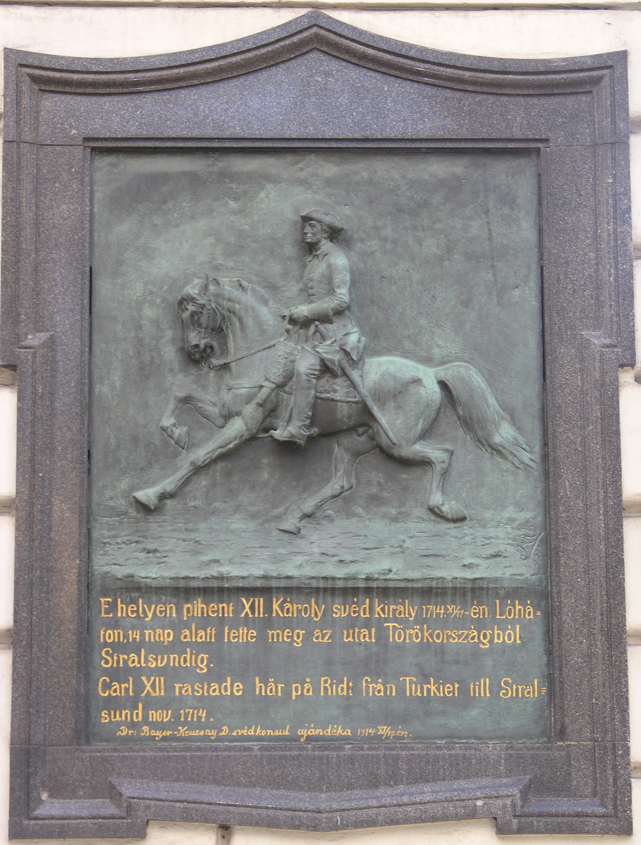 Commemorative plaque of Charles XII of Sweden in Budapest District V, Váci Street No 43